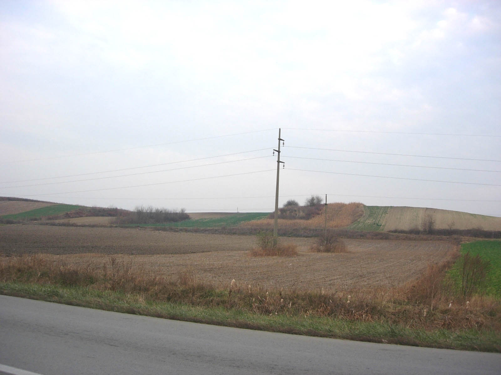 The Telečka downs near Sivac.